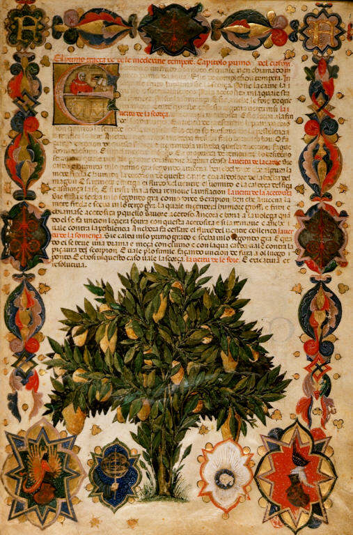 Serapion the Younger, Translation of the herbal (The 'Carrara Herbal'), including the Liber agrega, Herbolario volgare; De medicamentis, with index (ff. 263-265) Italy, N. (Padua); between c. 1390 and 1404